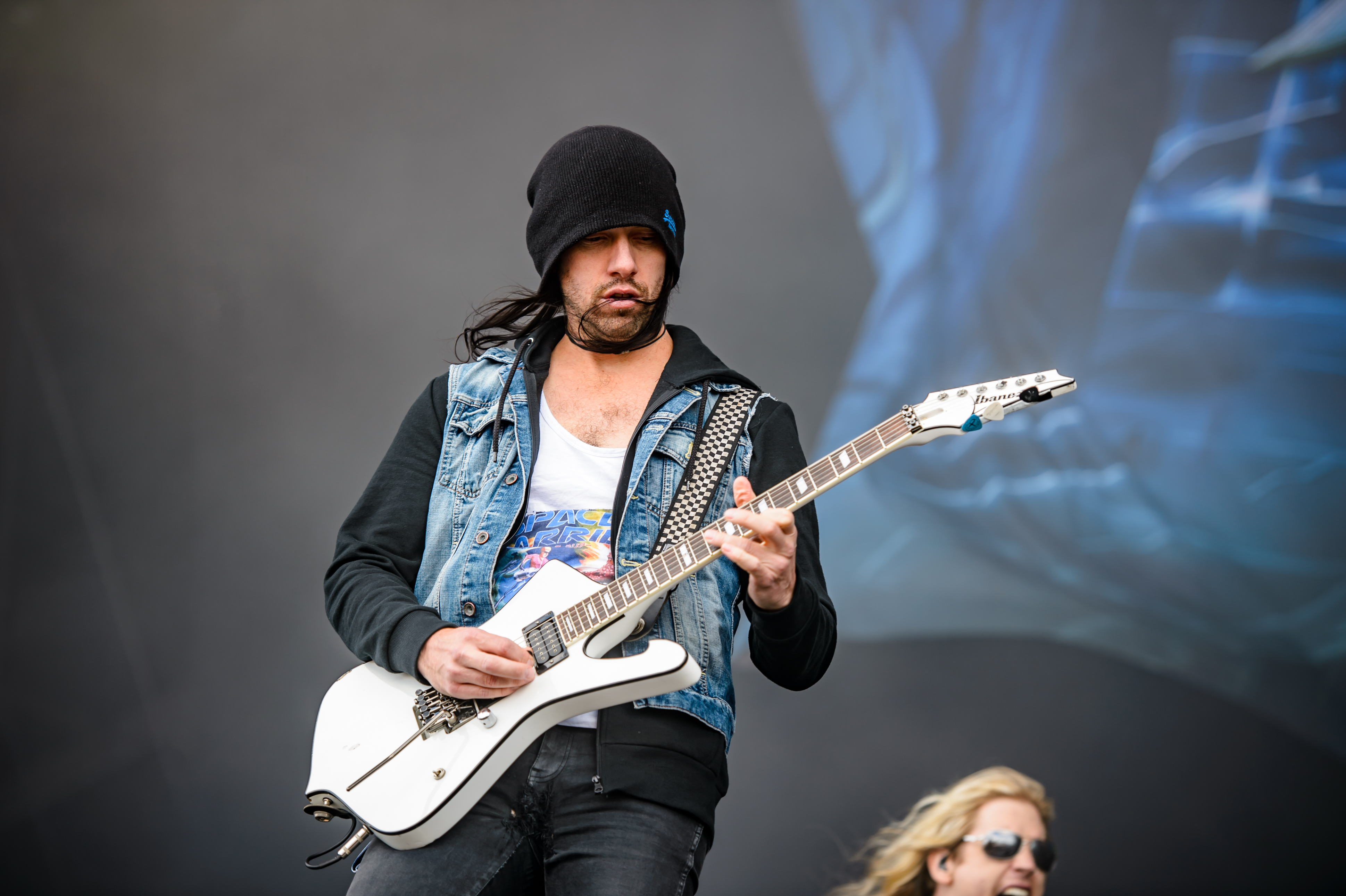 DragonForce; Wacken Open Air 2016